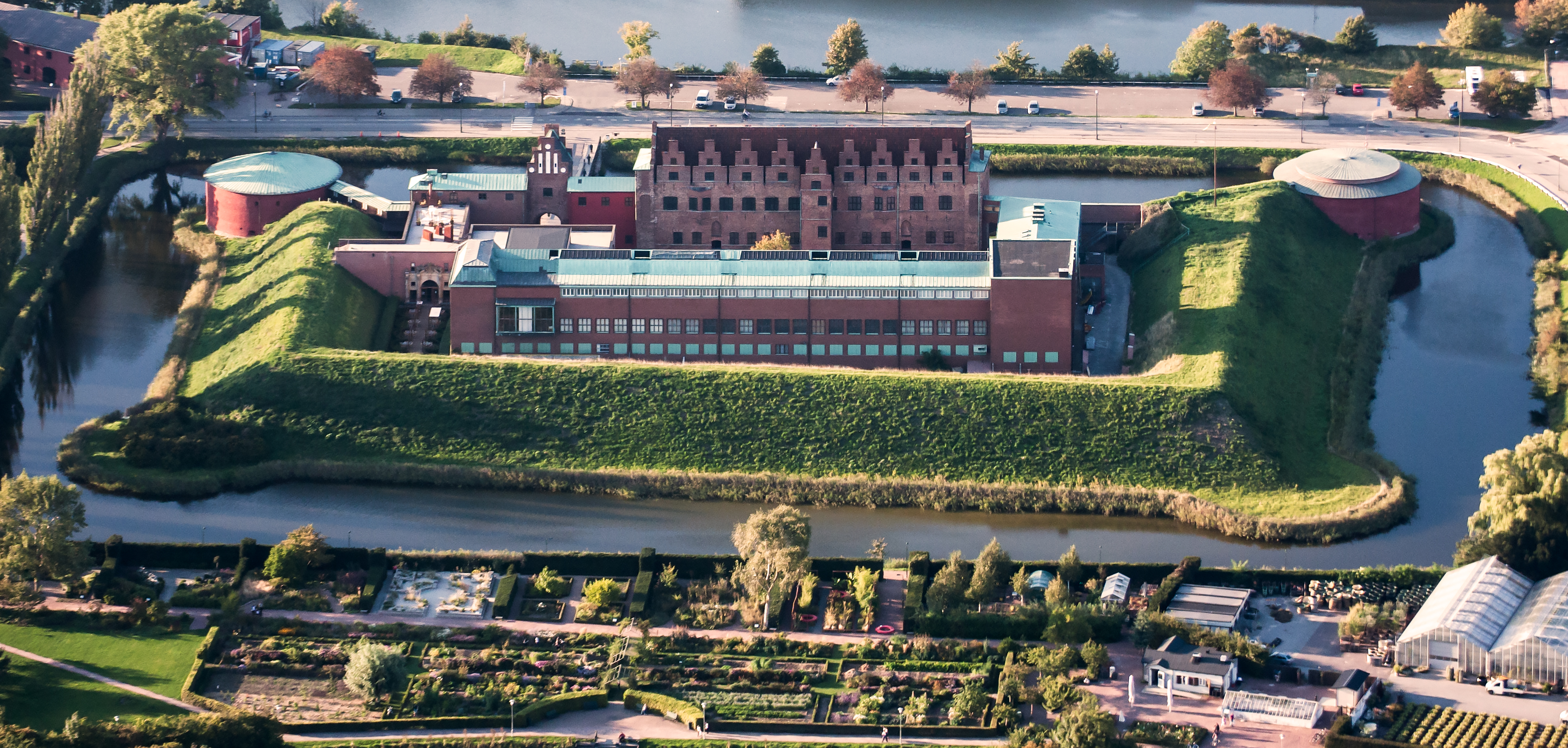 Malmöhus